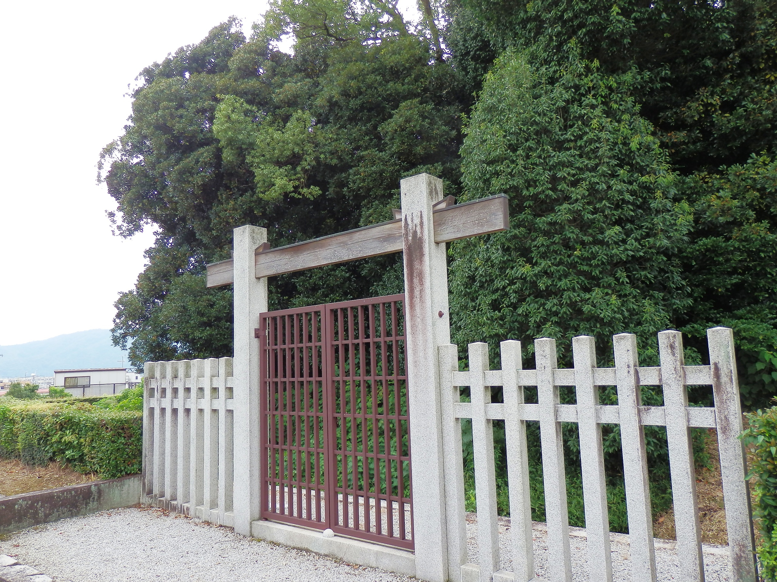 The Tomb of Prince Nakano, in Ukyō-ku, Kyoto, Kyoto Prefecture, Japan